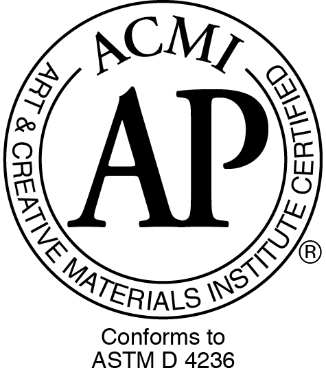 AP Seal